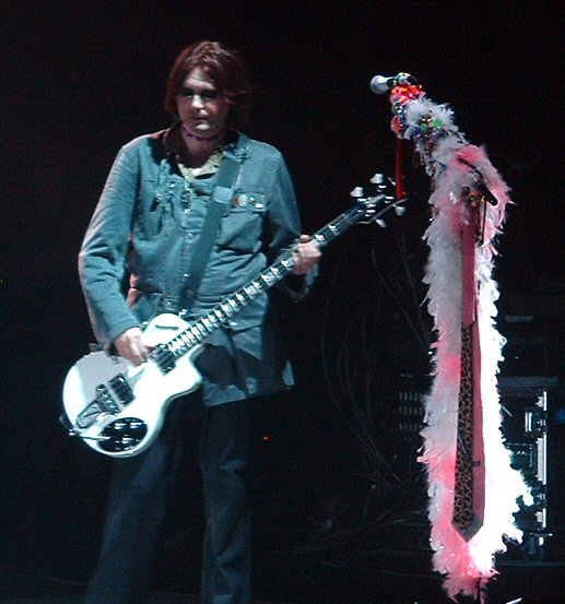 Manic Street Preachers live in London